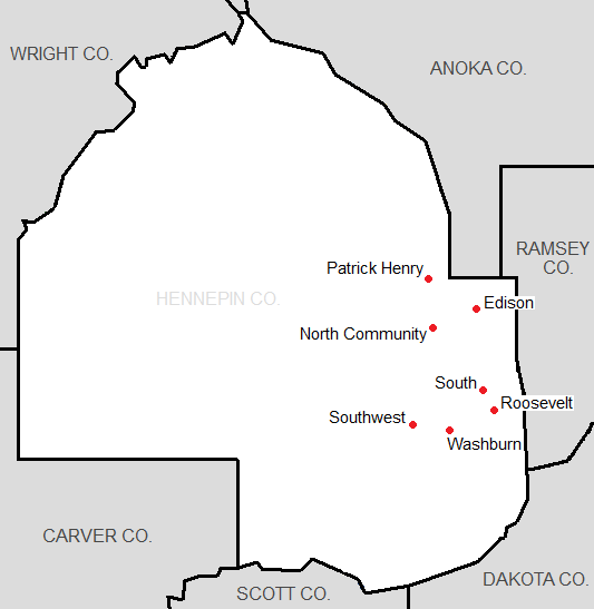 Shows the locations of the members of the MCC as of 2012-13.